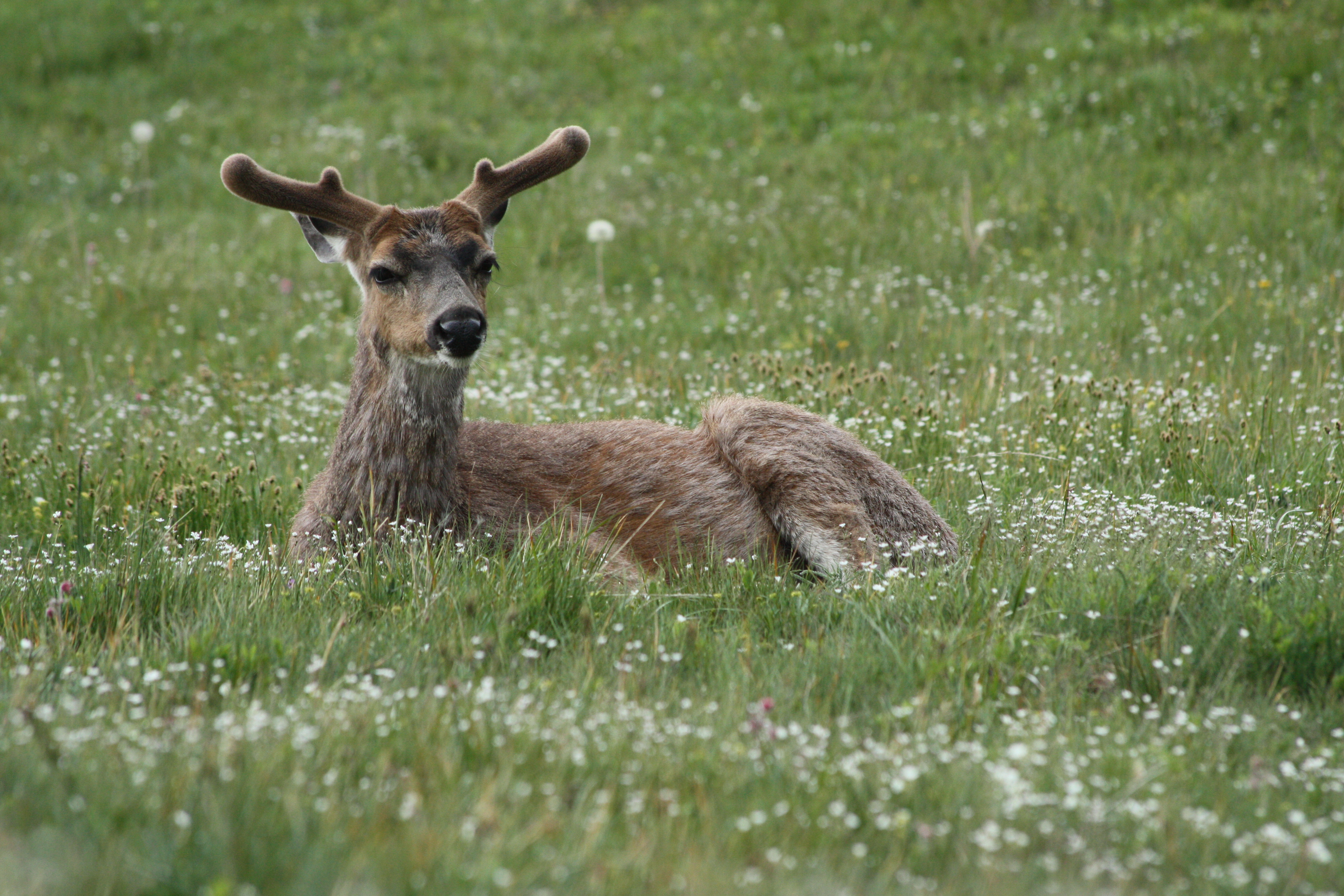 Columbian Black-tailed Deer, Coast Deer male